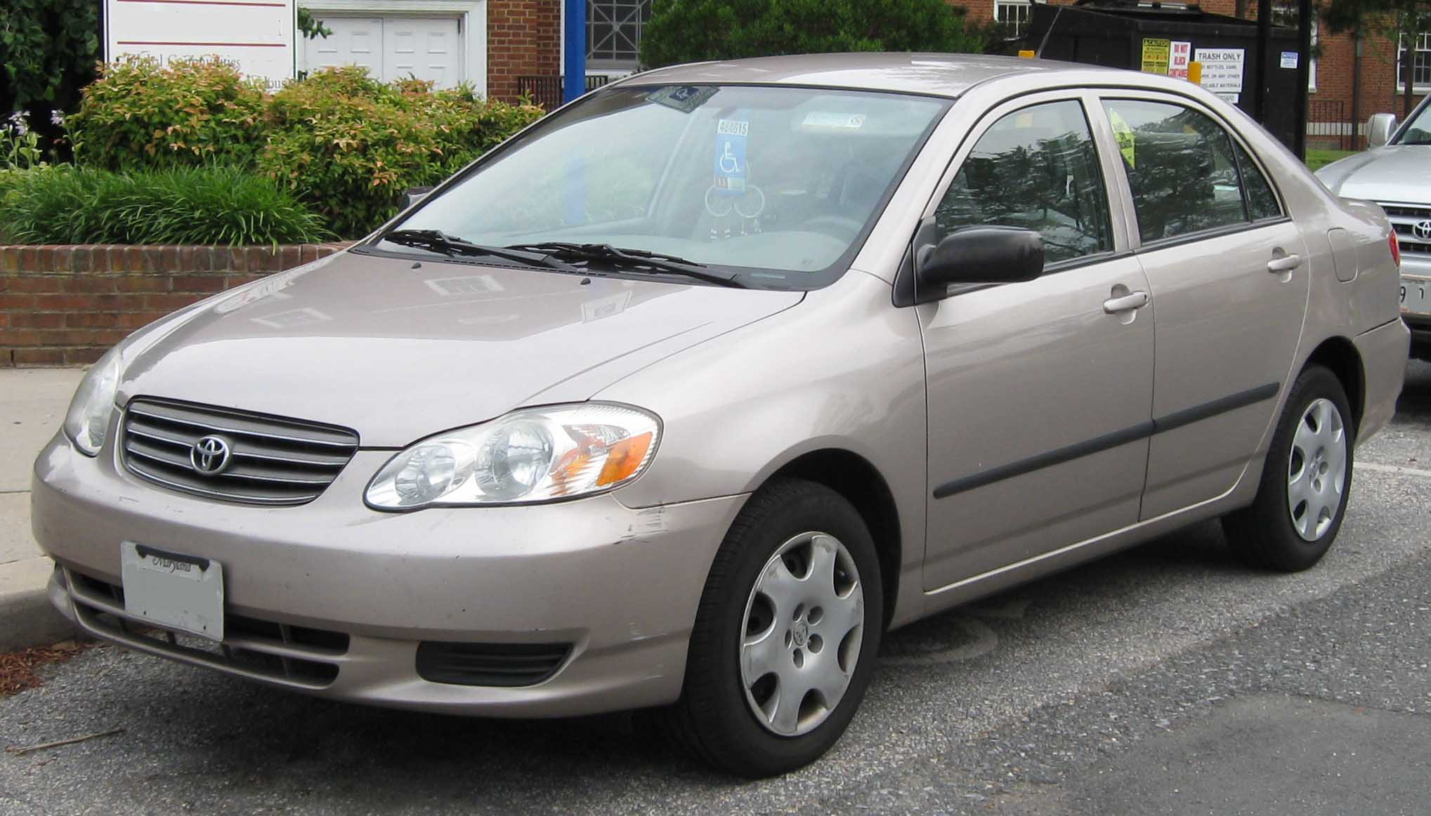 2003-2004 Toyota Corolla photographed in College Park, Maryland, USA.